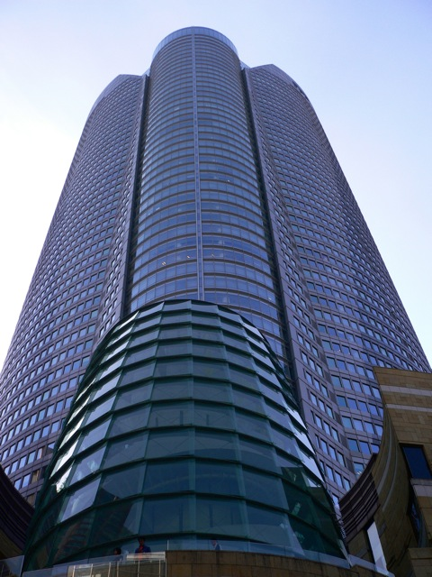 Roppongi Hills Mori Tower（六本木ヒルズ森タワー） Source = Photo taken by (WT-shared) Volfgang Author = (WT-shared) Volfgang Date = June 2008 Permission = See below.